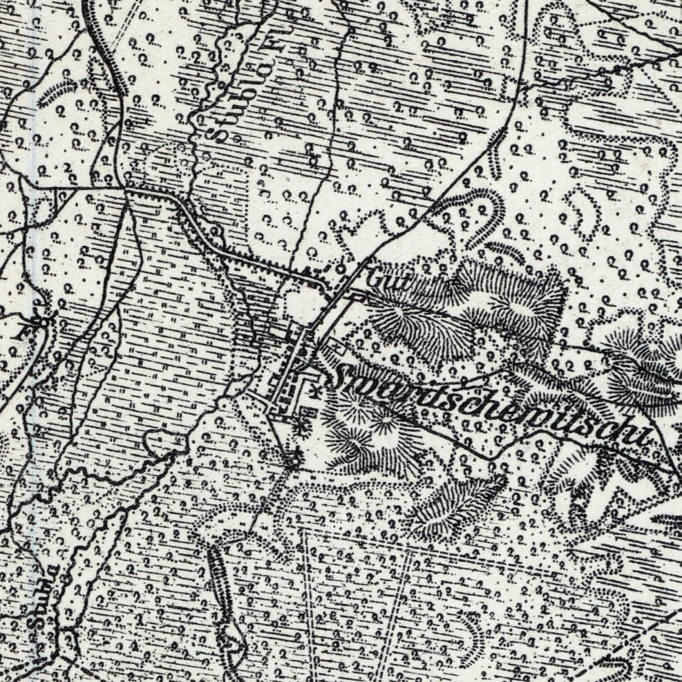 Svarytsevychi on the map "Karte des Westlichen Russlands", S 35, 1915. According to Digital Repository of Scientific Institutes the map is in the public domain.